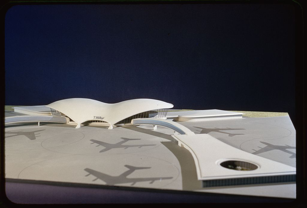 Design model for the TWA Flight Center by Eero Saarinen, photo by Balthazar Korb. Library of Congress, Prints & Photographs Division, Balthazar Korab Archive at the Library of Congress, [reproduction number, e.g., LC-DIG-krb-00175]